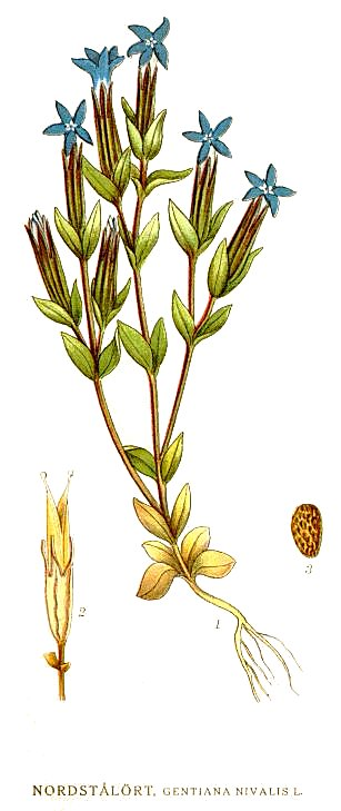 Original Description Nordstålört, Gentiana nivalis L.